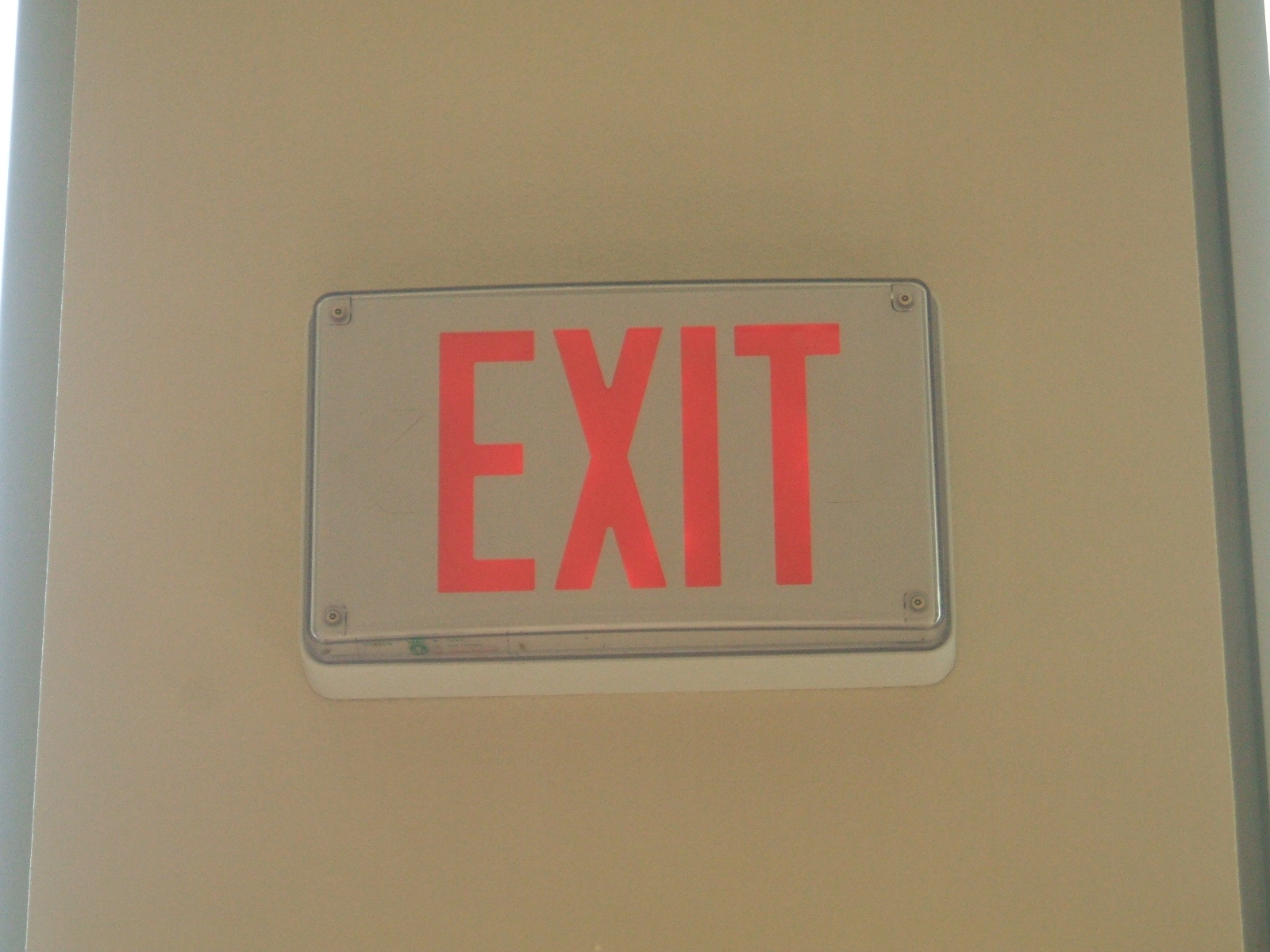 The Standard Red Exit Sign in U.S.